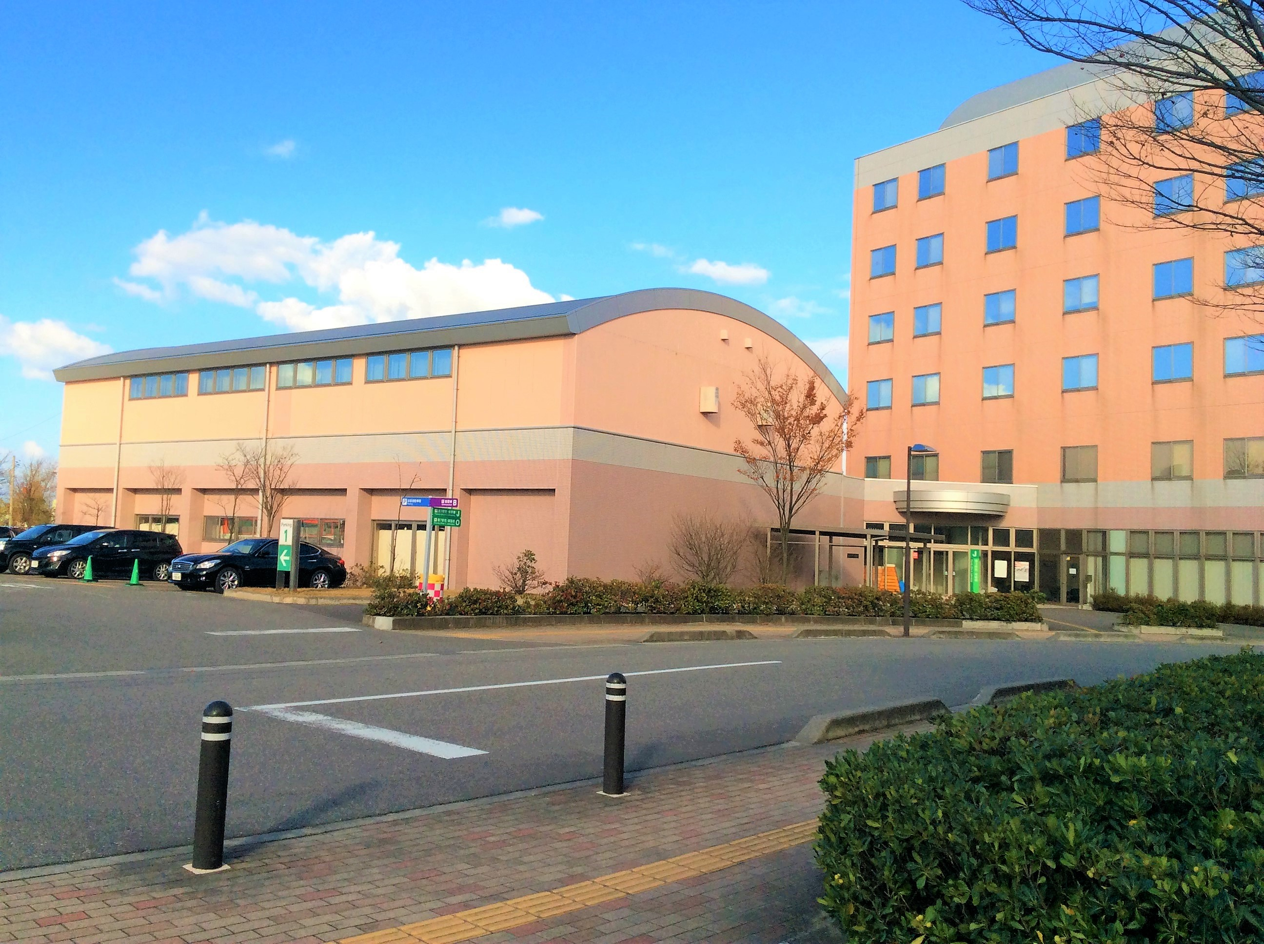 second gymnasium of Niigata University of Health and Welfare